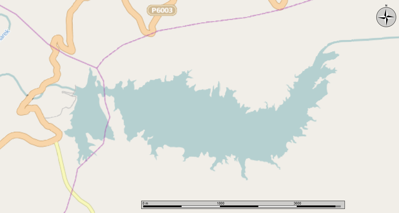 Map showing the Hassan II dam and lake it created in Morocco. Created in the Marble program using an OSM map.